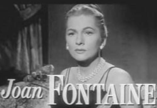 Cropped screenshot of Joan Fontaine from the trailer for the film Beyond a Reasonable Doubt